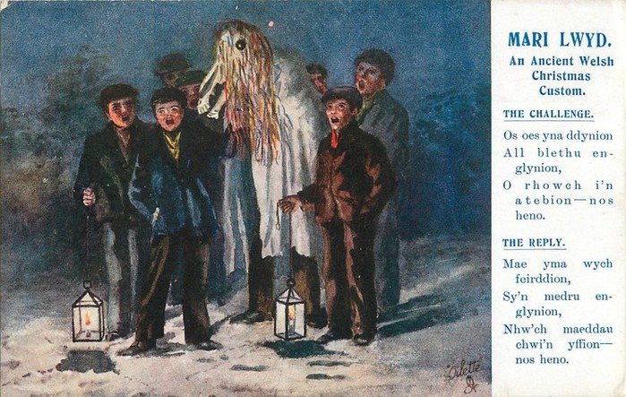 Mari Lwyd